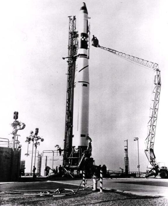 Thor DM-21 Agena-D with POPPY-1 surveillance satellite at Vandenberg AFB Launch Complex 75-1-1 (later designated SLC-2E).